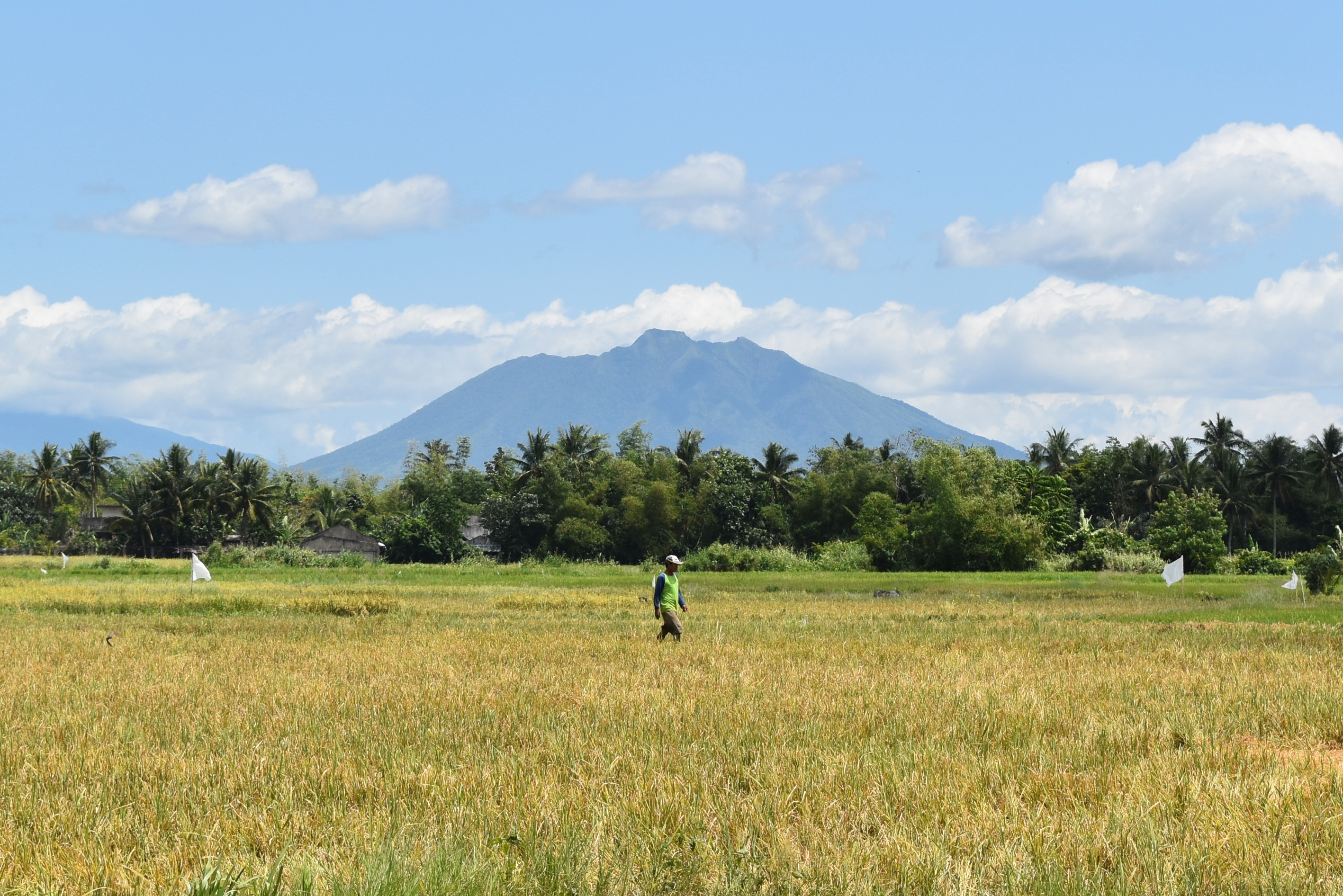 Mt. Asog seen in Pili , Camarines Sur